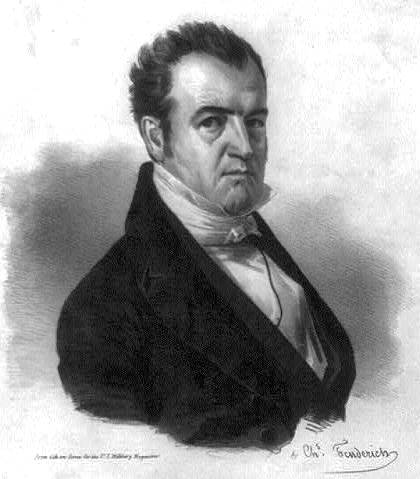 American politician John Bell (1797–1869)